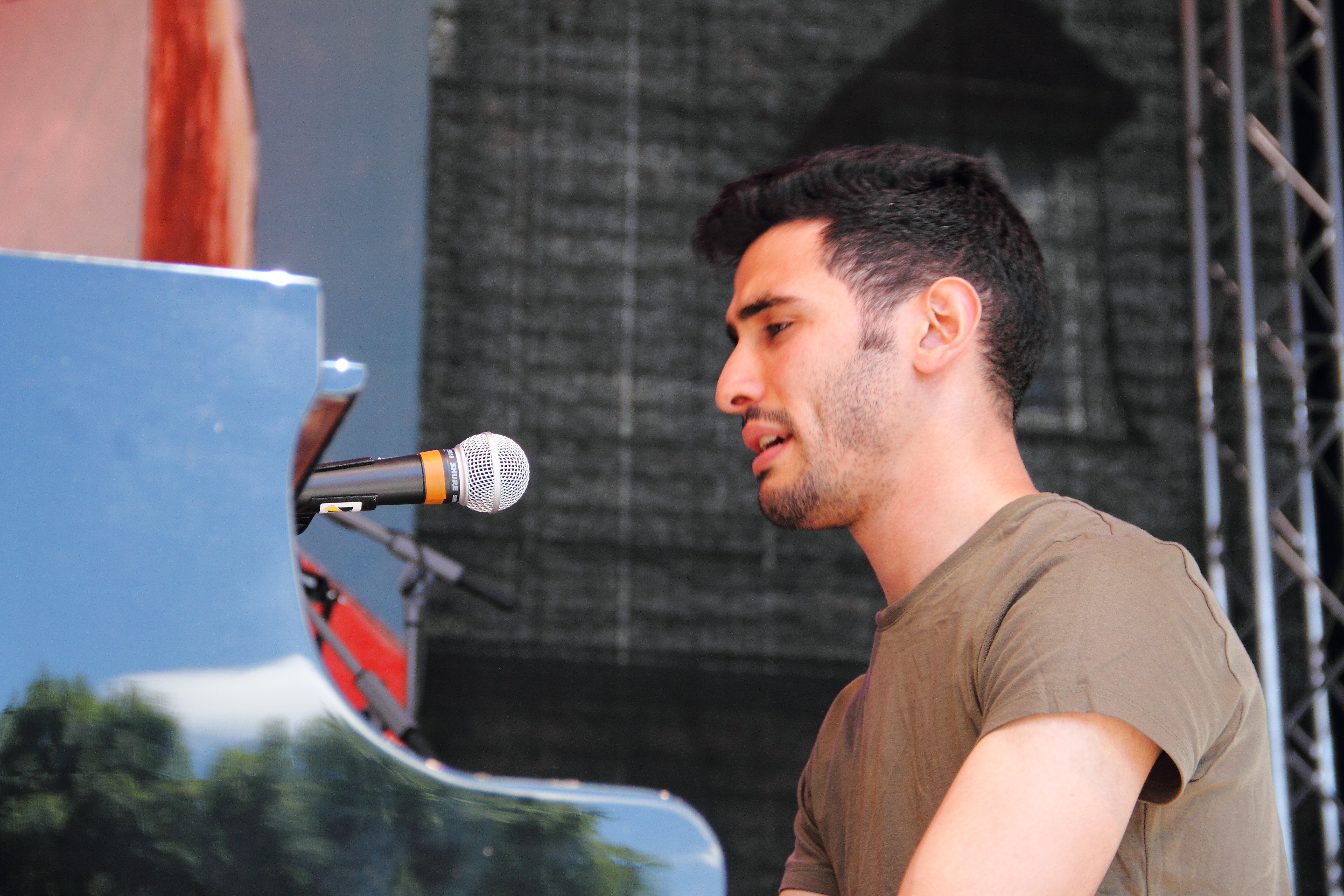 Ahmad-Knecht-Trio at Rudolstadt-Festival 2018.